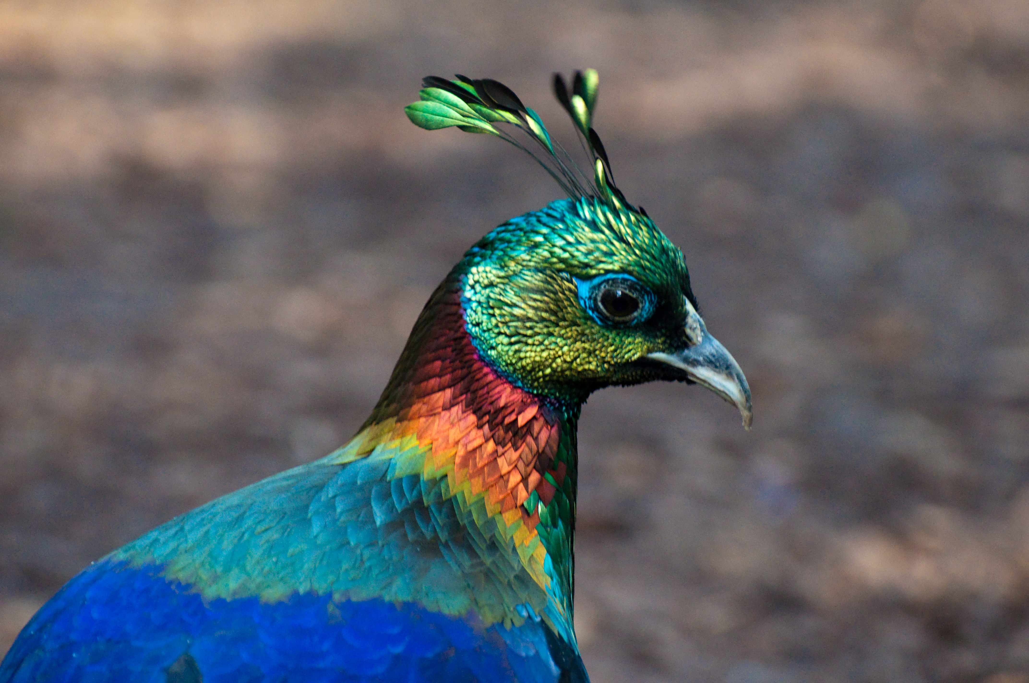 A male Himalayan Monal